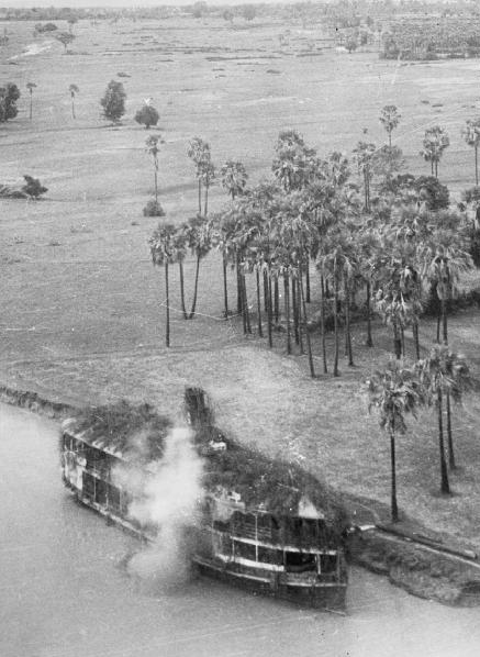 THE WAR IN THE FAR EAST: THE BURMA CAMPAIGN 1941-1945, Air Force Operations: Japanese river craft under air attack between Kyaukpadaung and Muale.